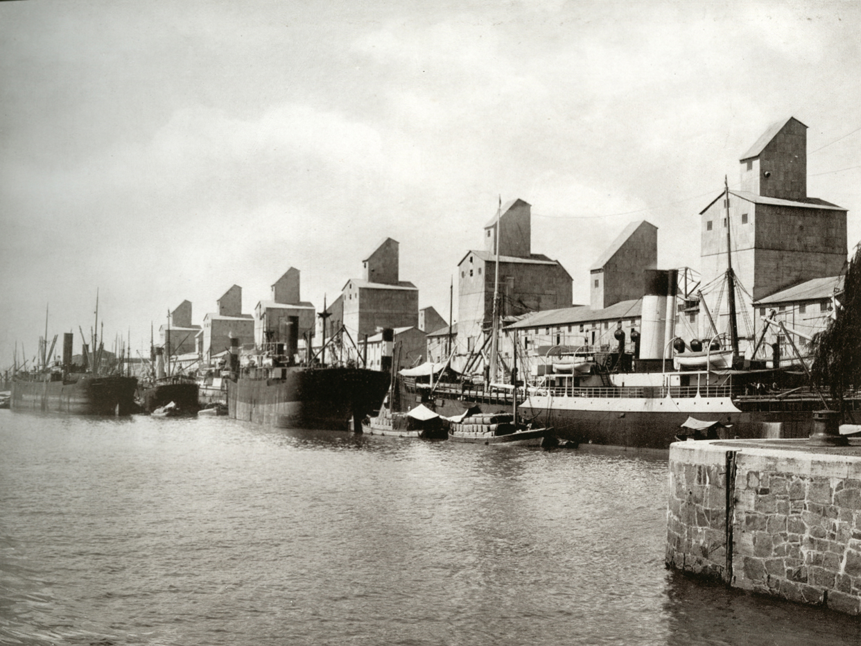 Dock 2 of Puerto Madero (Buenos Aires), with the grain elevators that would be later demolished after 1989.